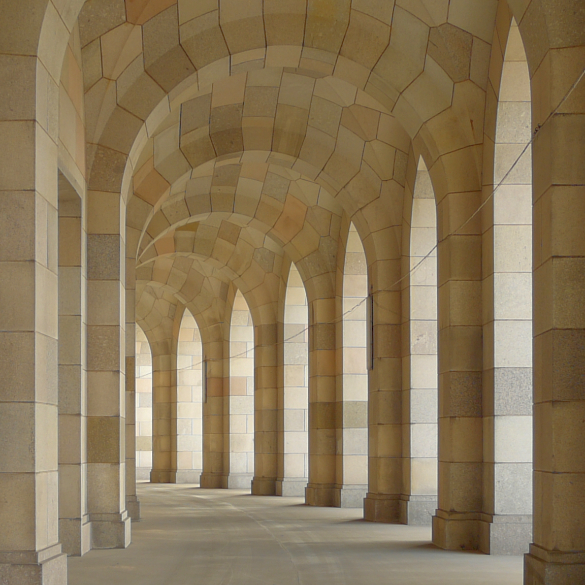 Portico in the Congress hall on Nazi party rally grounds in Nuremberg, Germany